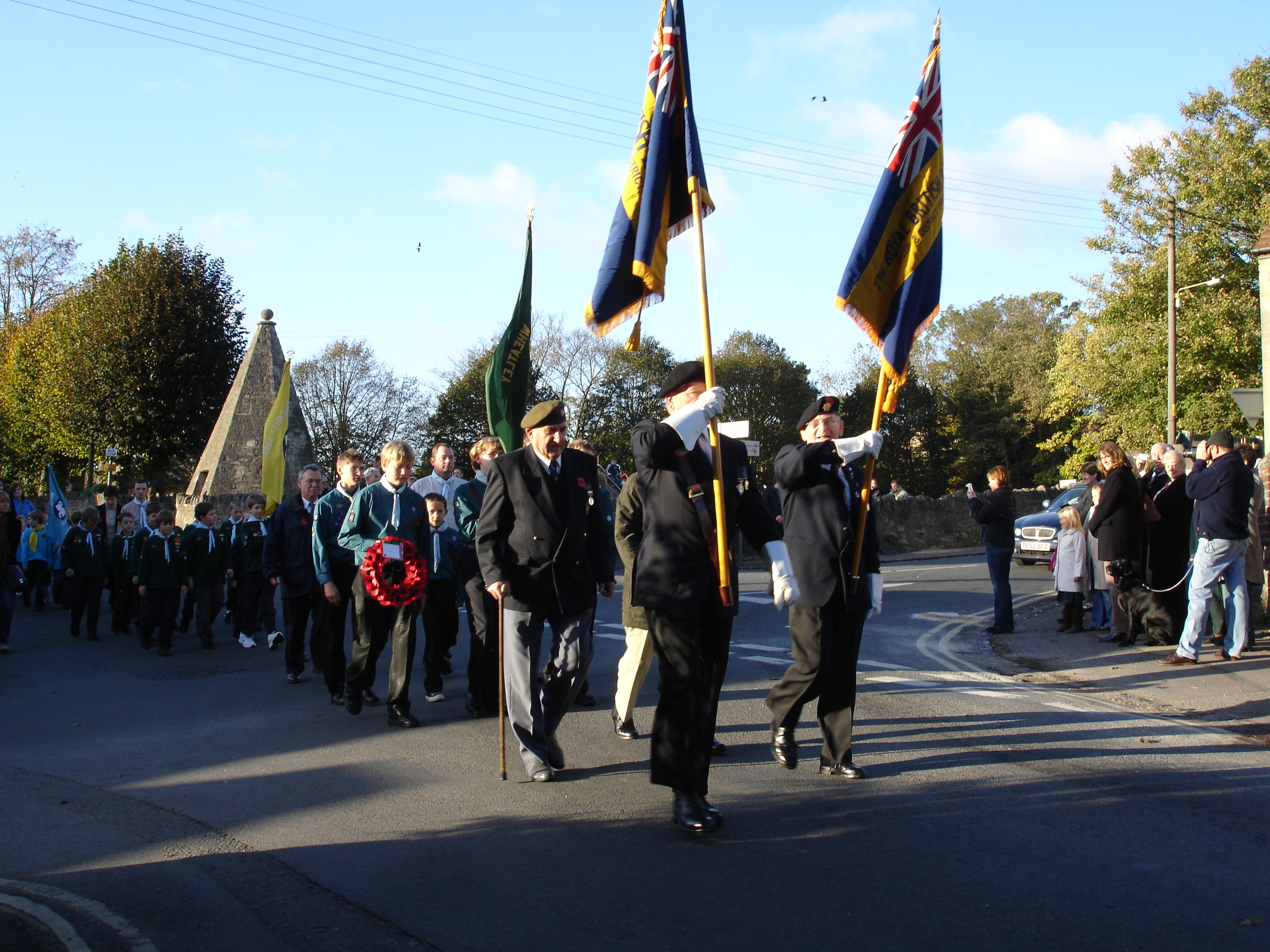 Memorial Day parade, Wheatley Village.